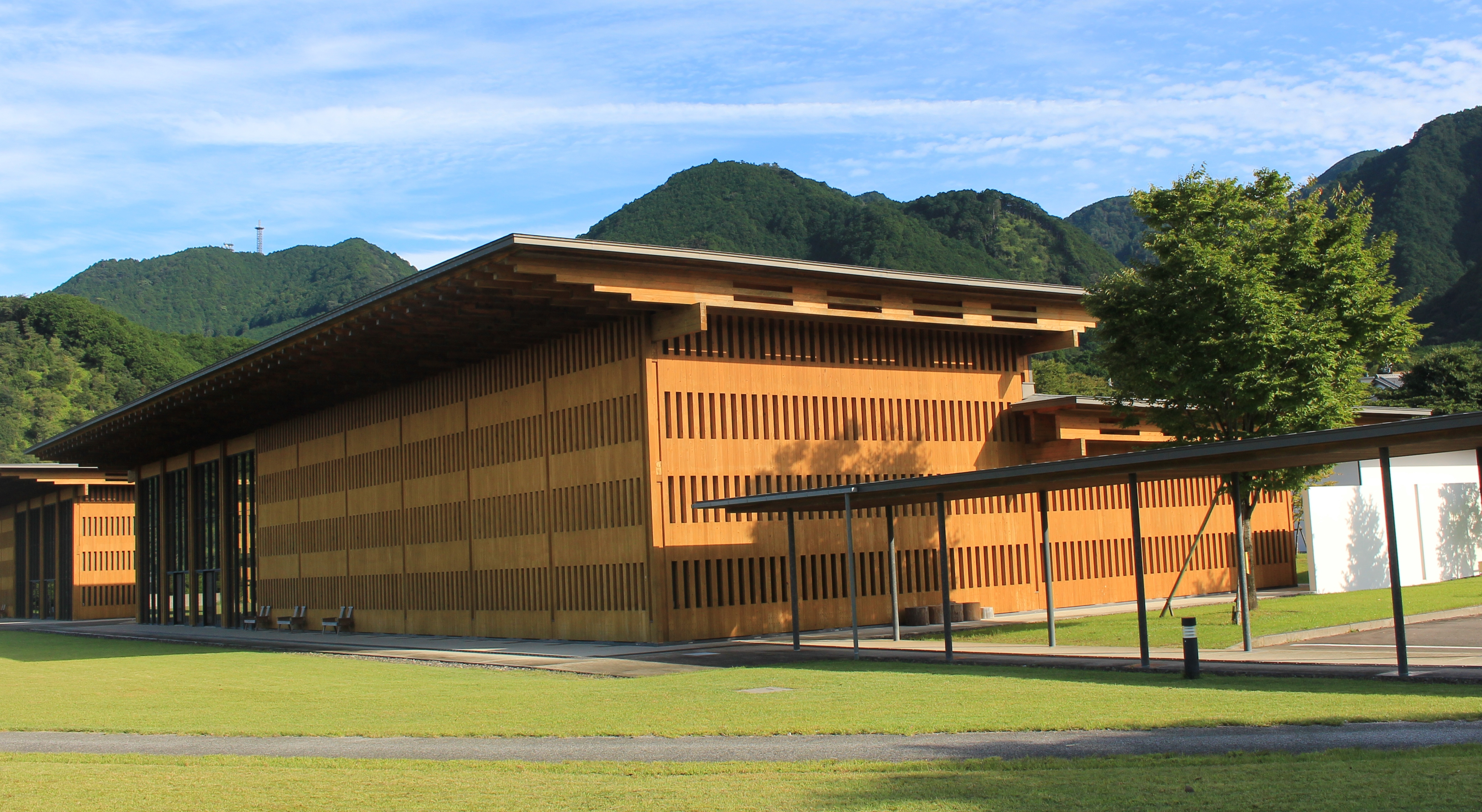 Mie Prefecture Kumano Kodo Center in Owase, Mie Prefecture, Japan.